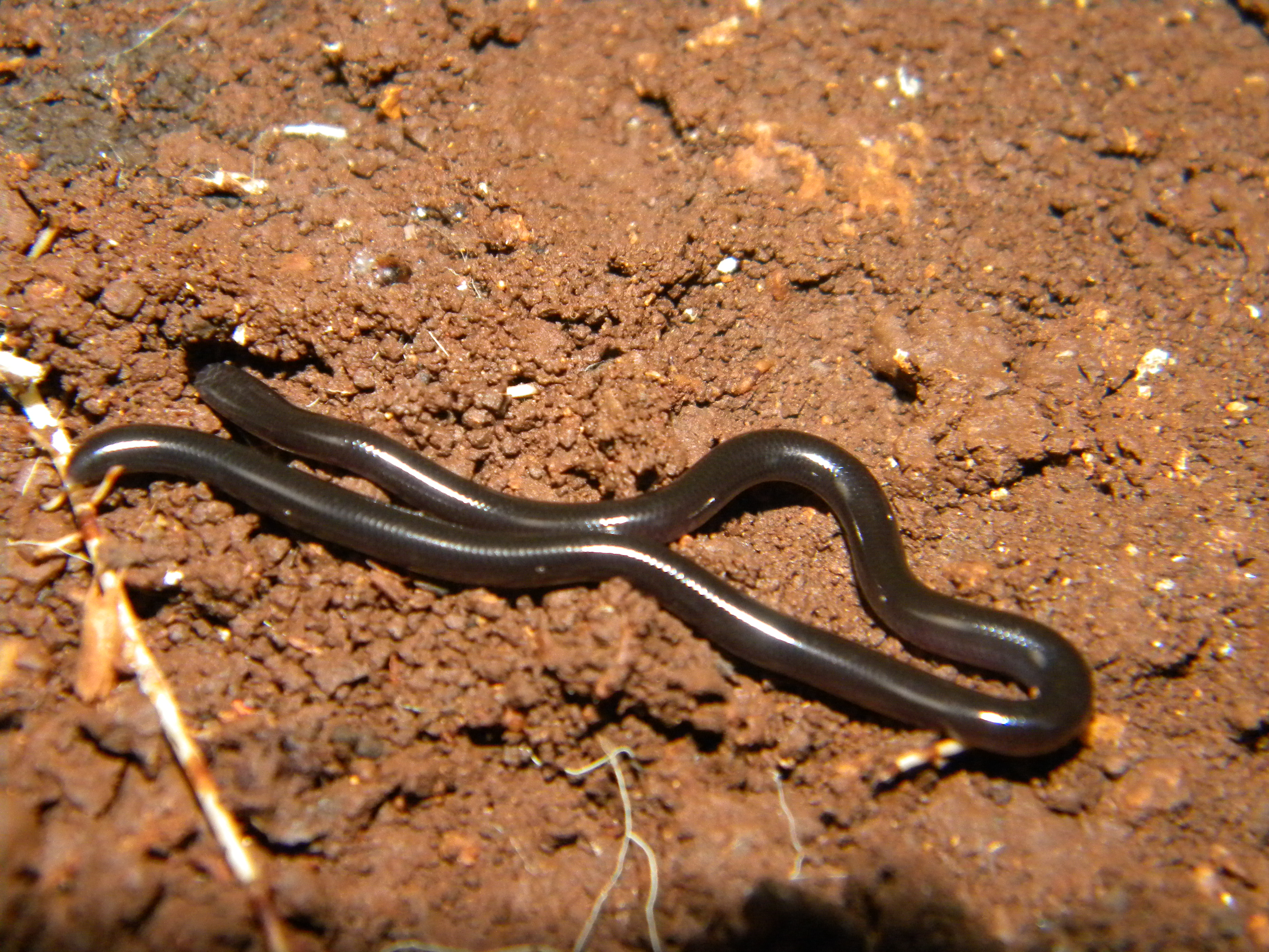 Black Blind Snake (Leptotyphlops goudotii) Merida, Yucatan, Mexico These small snakes spend most of their time underground, so they are rarely seen, although they are not rare. When their burrows get flooded, usually after heavy rains, they tend to come out and hide under the rocks.